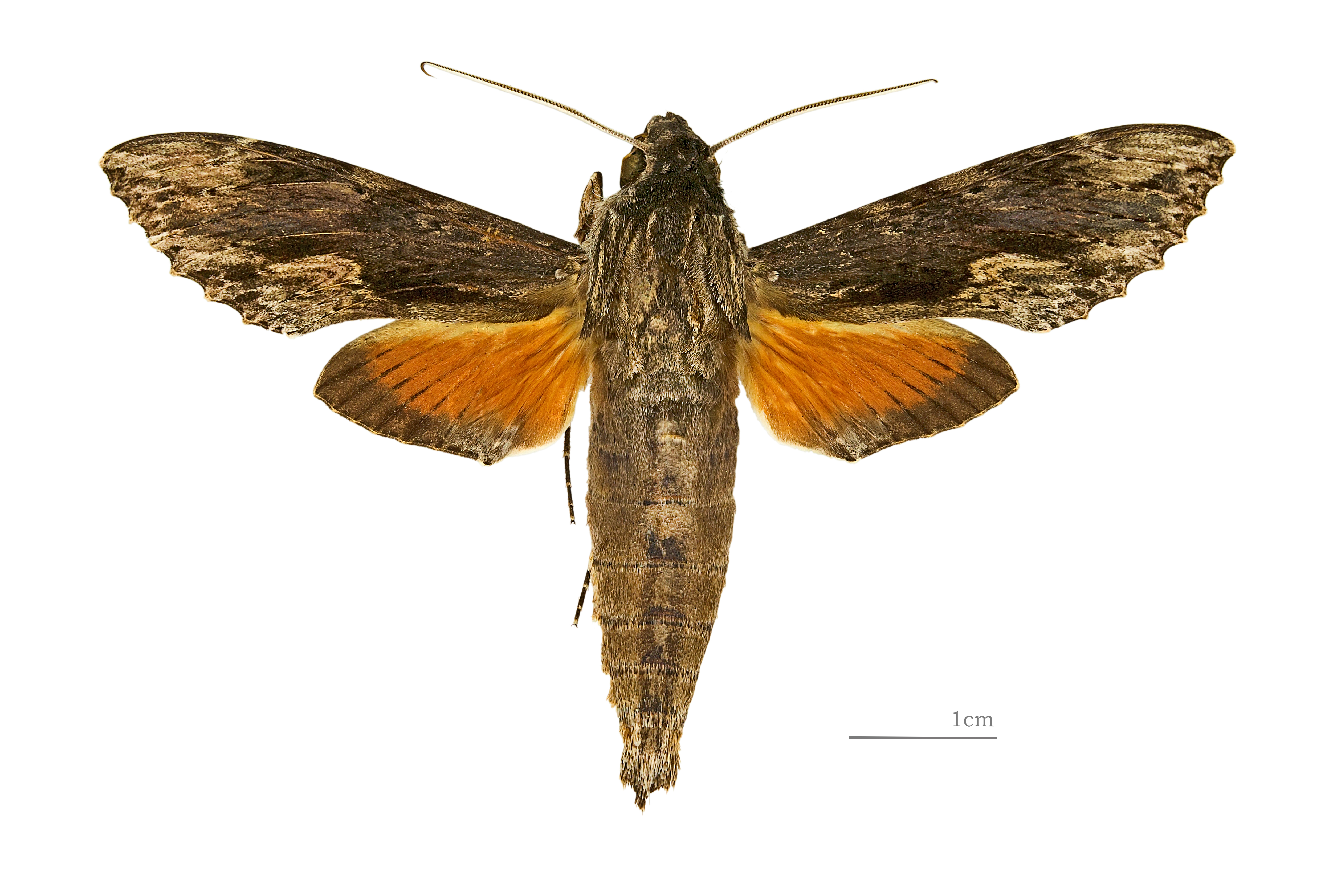 Erinnyis oenotrus - Dorsal side